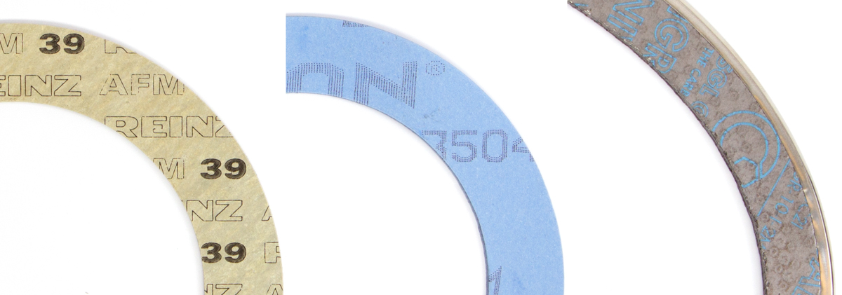 The figure shows from left to right a fibrous flat gasket, a PTFE flat gasket and a graphite flat gasket with external metal jacket.